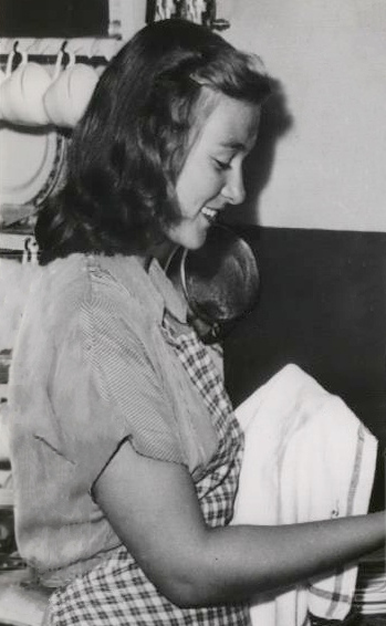 1949 Press Photo Shirley May Frances to try English Channel swim from Dover